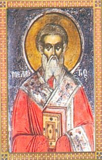 Oriental icon with Saint Meletius of Antiochia